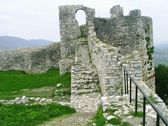 Town of Berat, Albania